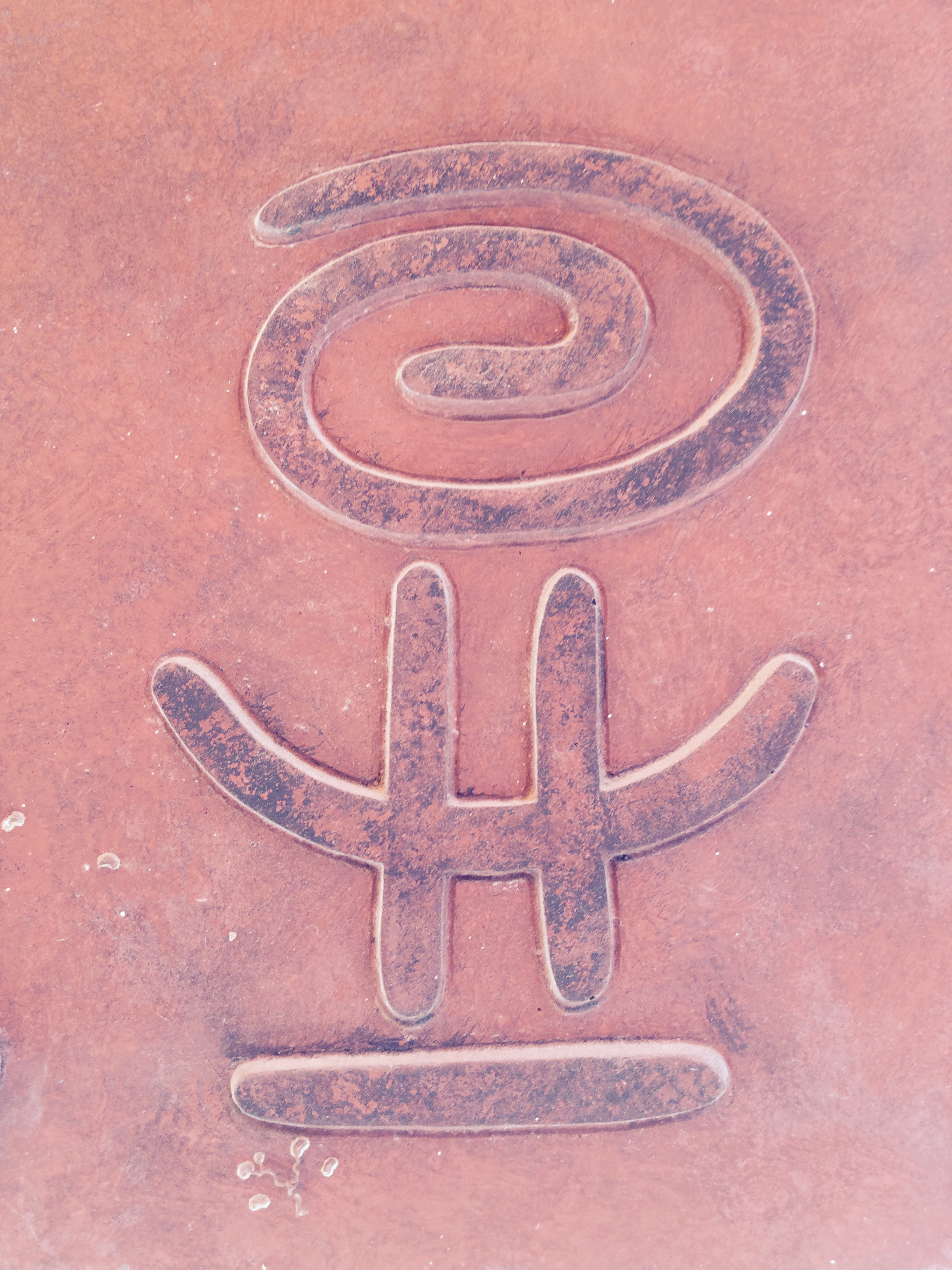 Symbol of the former gallery zinke (part of the memorial plaque of Robert Wolfgang Schnell, Behaimstraße 10, Berlin), 2015